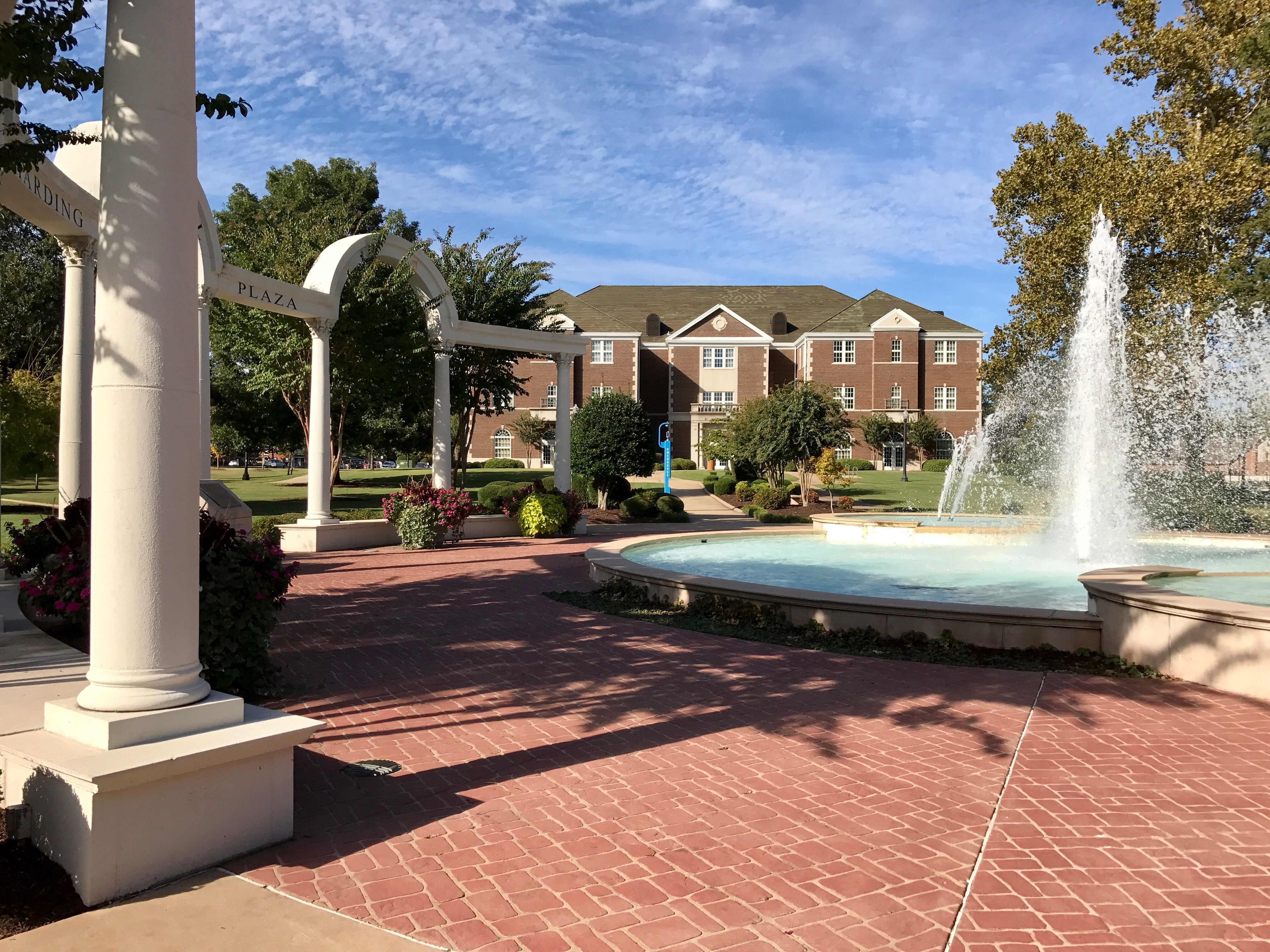 Harding Centennial Plaza with Thompson Hall in the background.